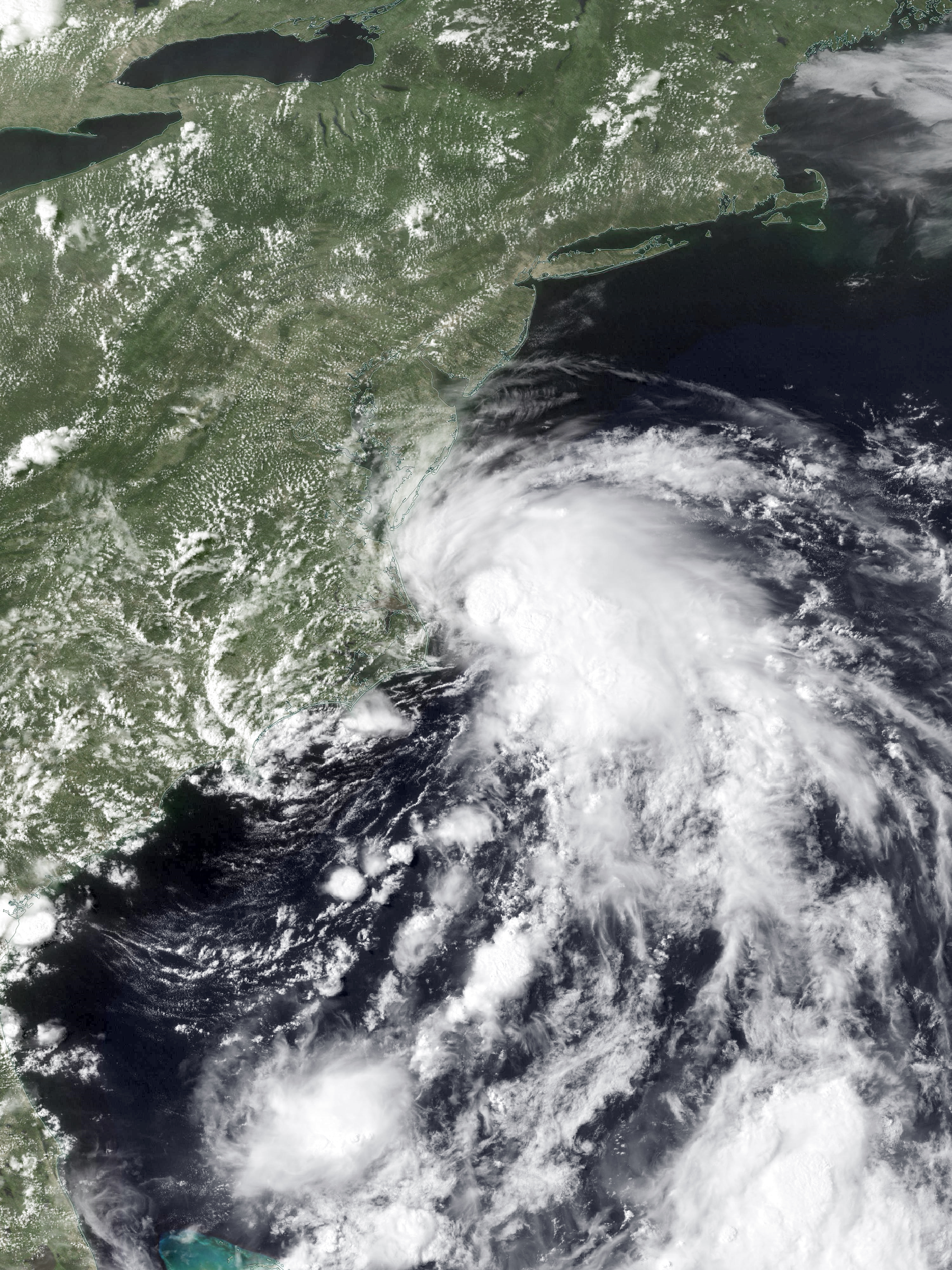 Tropical Storm Fay on July 9, 2020